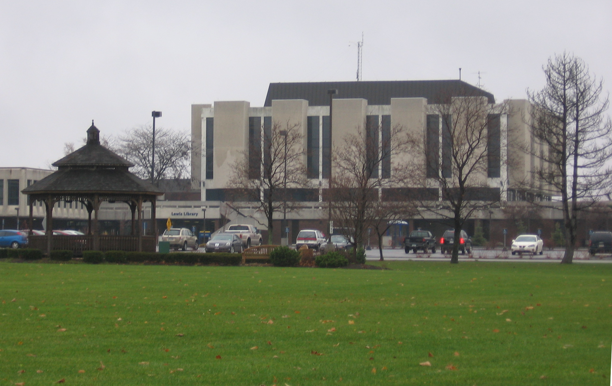 The gazebo and the Niagara County Community College library can be seen from the front entrance.